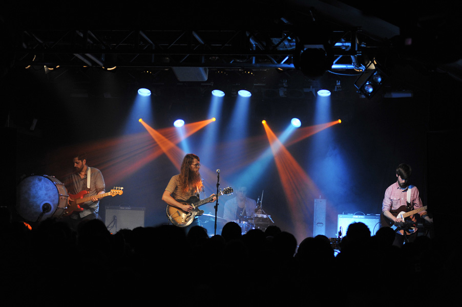 Maps & Atlases are an indie rock group from Chicago, Illinois USA. Live performance at The Garage, Islington in London on 17th April 2012. The band members are Shiraz Dada (bass), Chris Hainey (drums), Dave Davison (guitar/vocals), and Erin Elders (guitar).